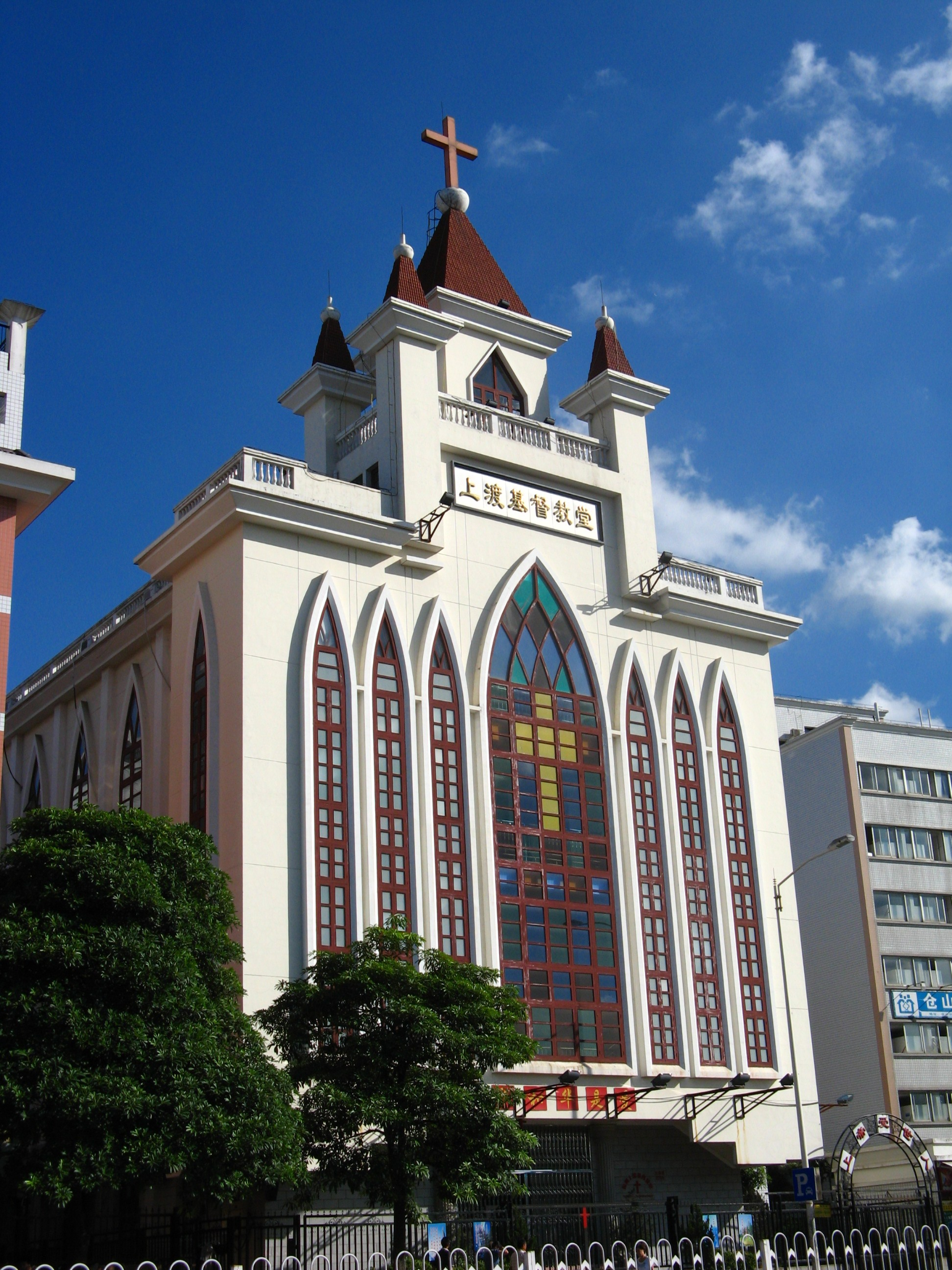 Shangdu Church, Fuzhou